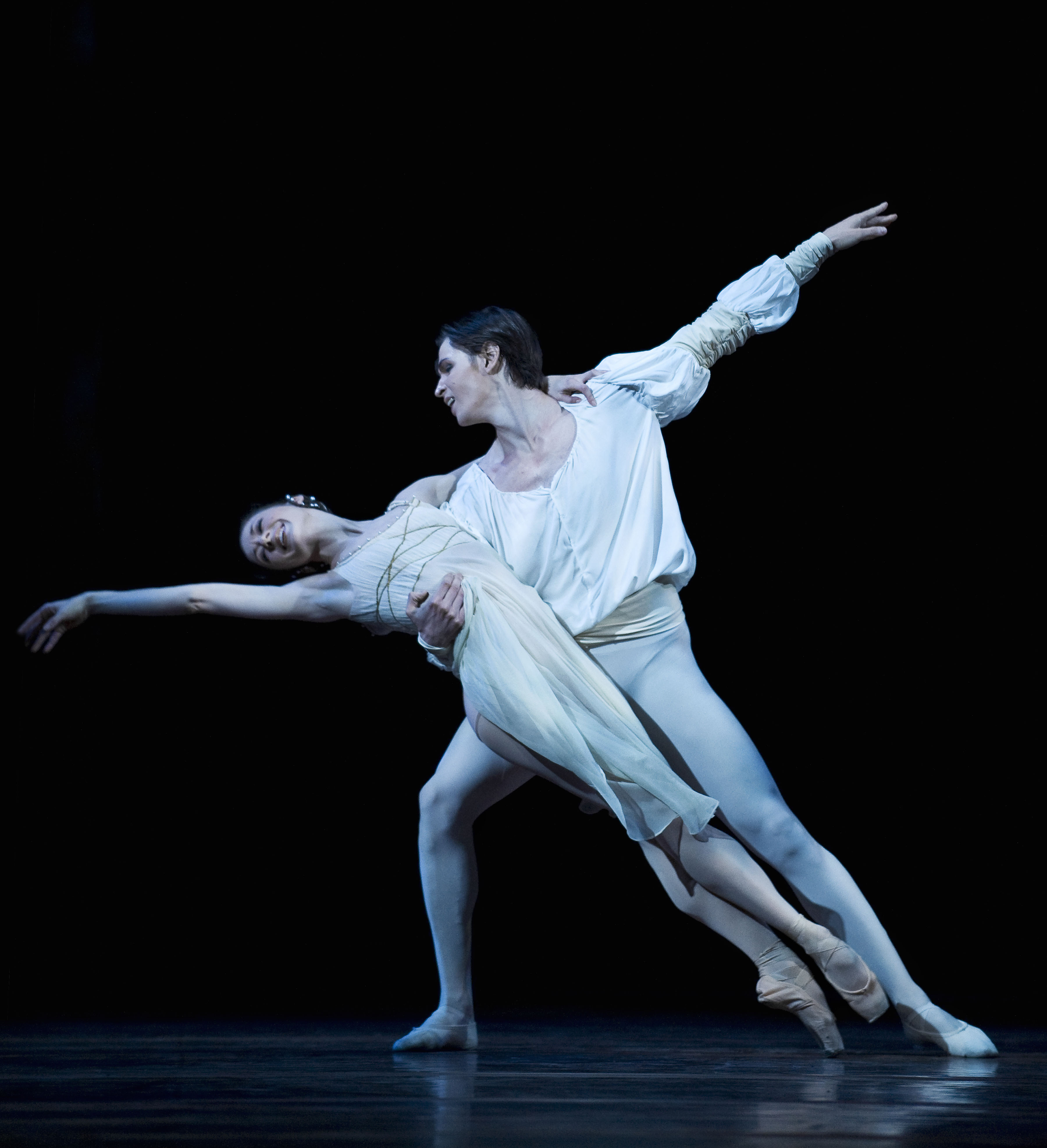 Nadja Sellrup and Pascal Jansson in a 2010 production of Romeo and Juliet at the Royal Swedish Opera